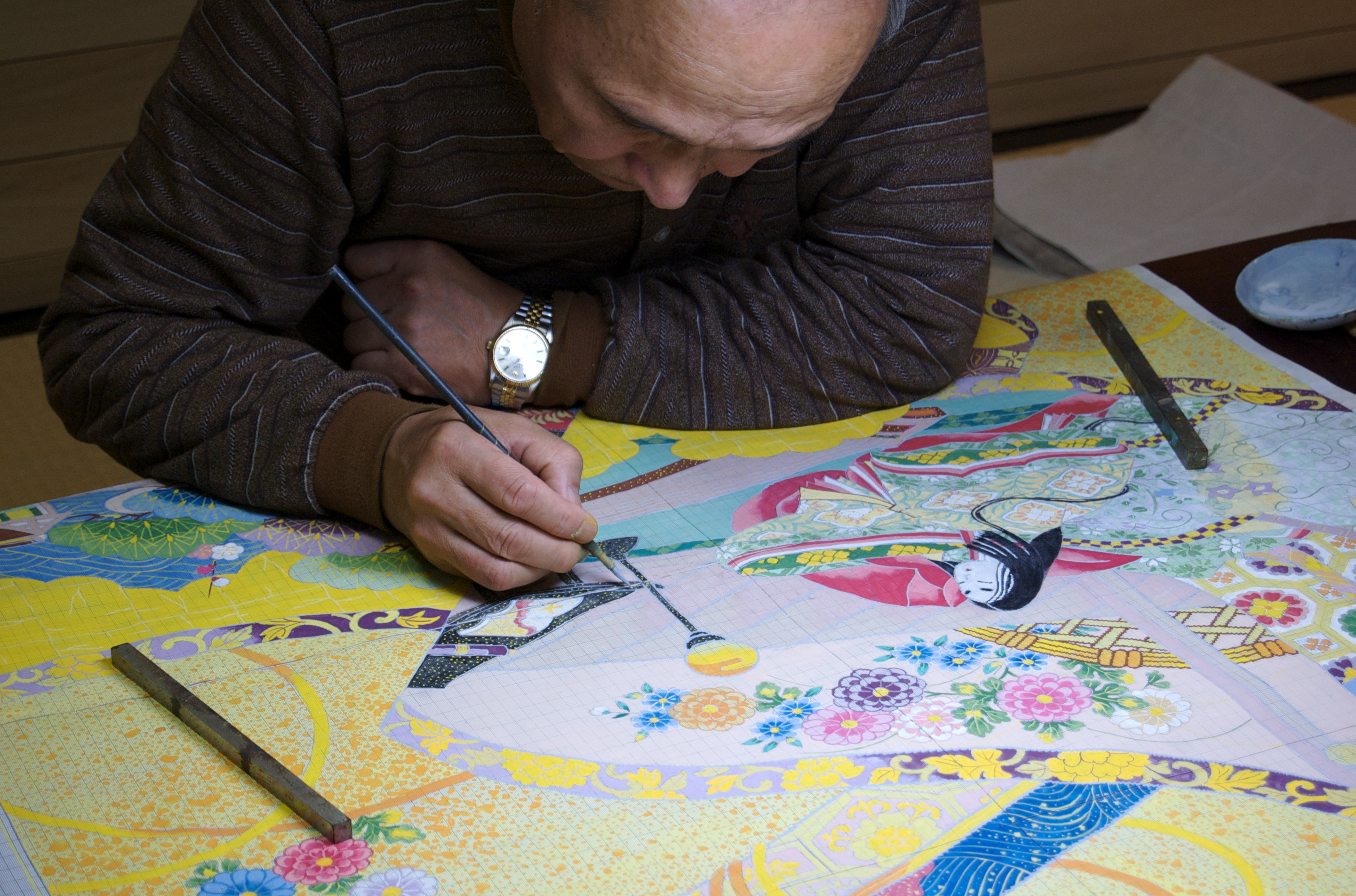 The process of making kimono